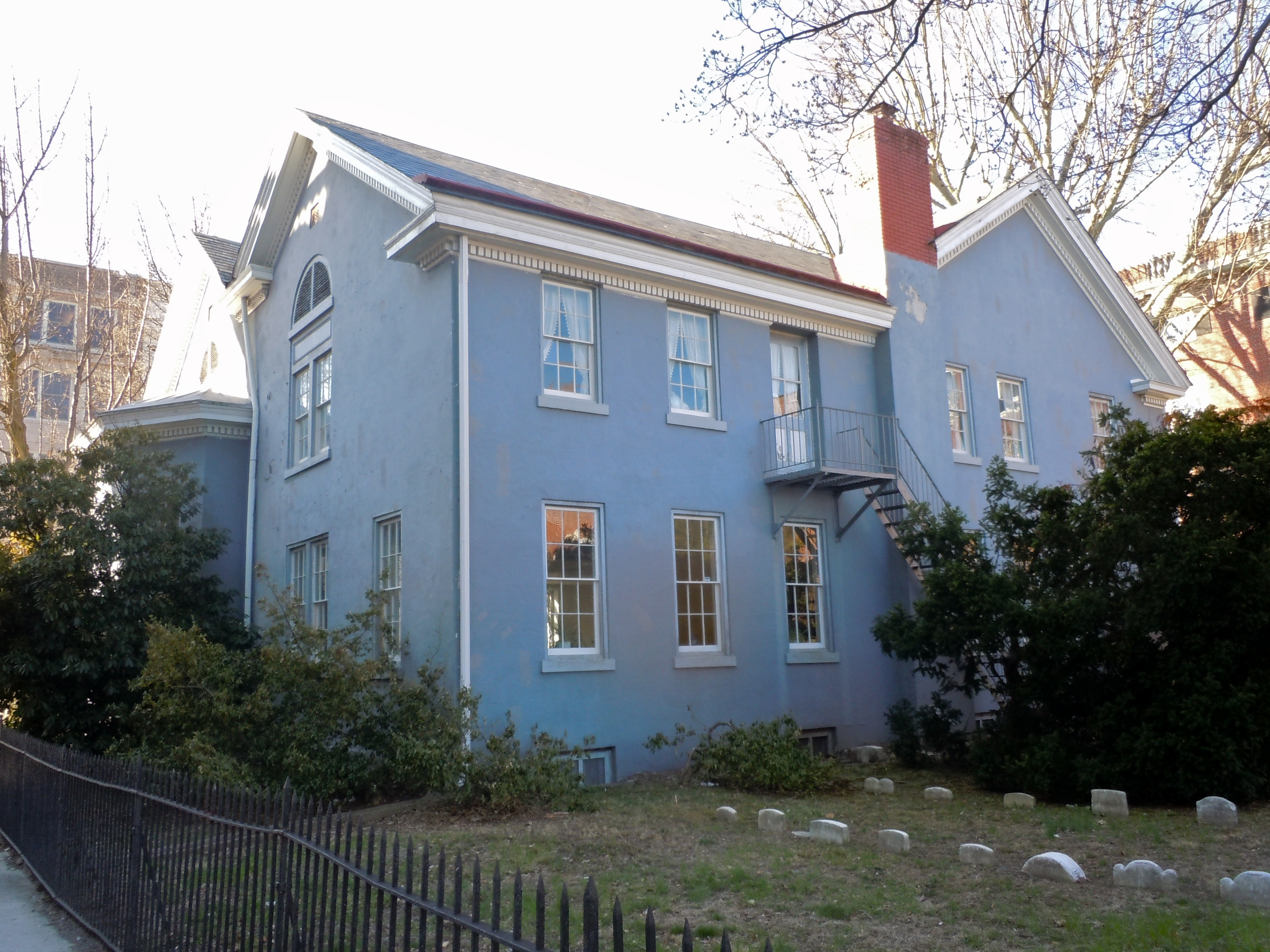 Trenton Friends Meeting House on the NRHP since April 30, 2008. At 142 E. Hanover St., Trenton, New Jersey. Nearby sign says "Celebrating 250 years" for the building, though there have been many updates and additions. Quakers founded the town, so this may be one of the oldest buildings in town.